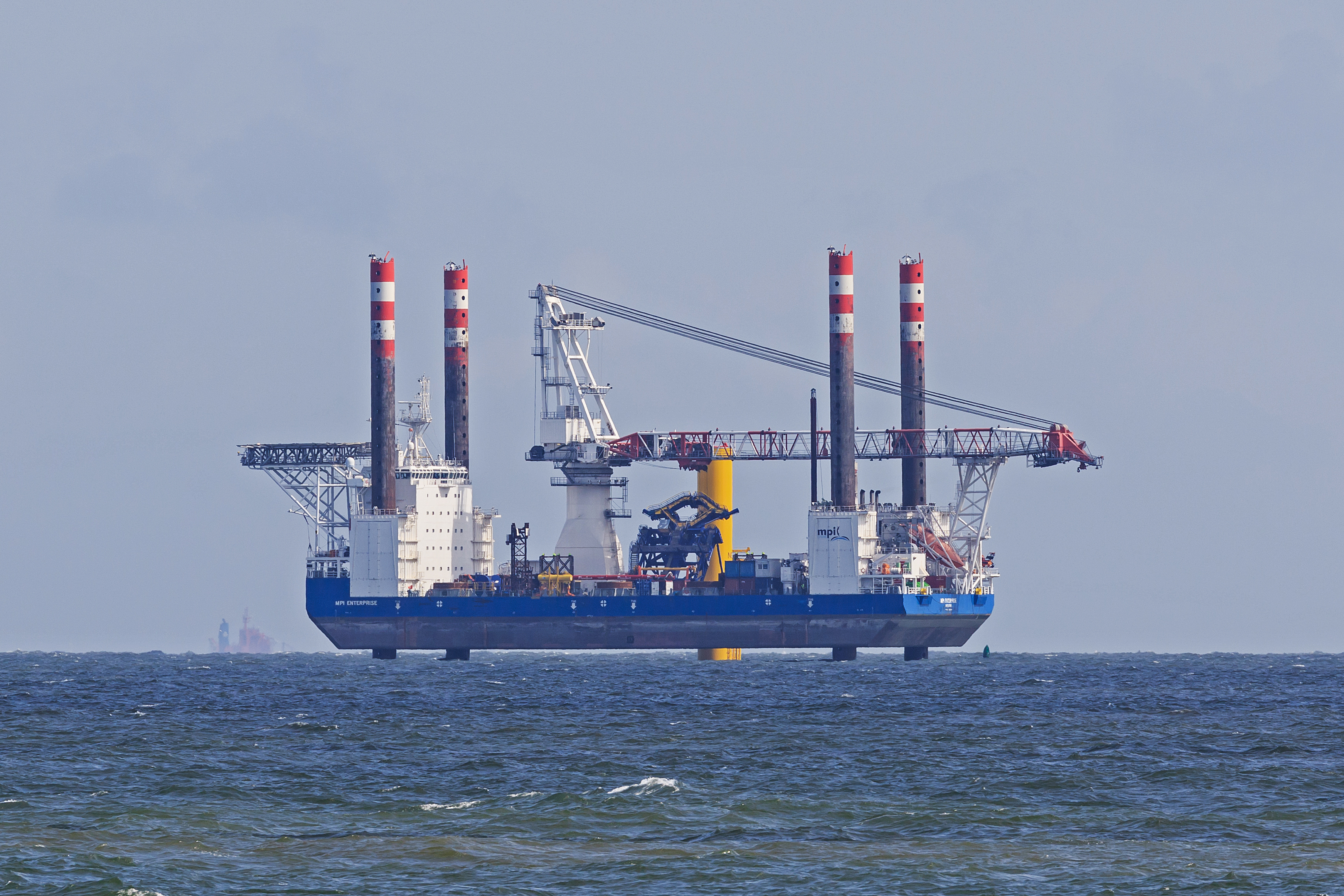 Sea bay of the Weser near Bremerhaven, Germany